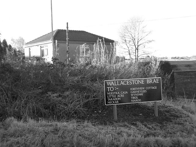 Wallacestone Brae. A collection of house names. They seem to be the same everywhere.